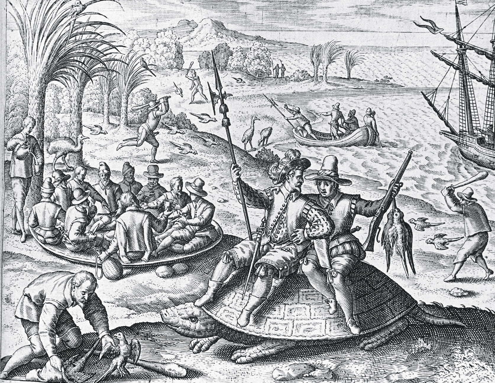 The Dutch on Mauritius in 1598, depicted hunting parrots (possibly including Psittacula bensoni). The cassowary-like birds are erroneous depictions of Dodos.